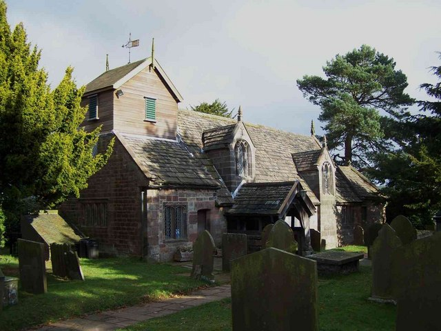 St. Lawrence, Rushton Spencer A wonderfully idiosyncratic church in the middle of nowhere. Details of church from village web site